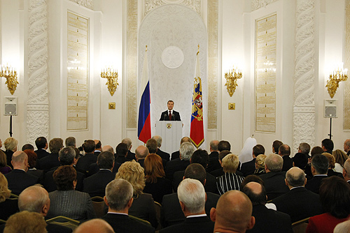 GRAND KREMLIN PALACE, MOSCOW. Annual Address to the Federal Assembly.